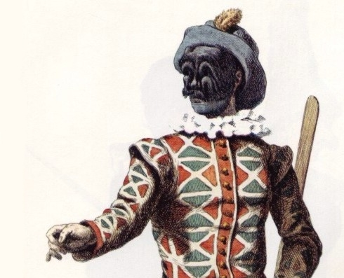 Harlequin year 1671